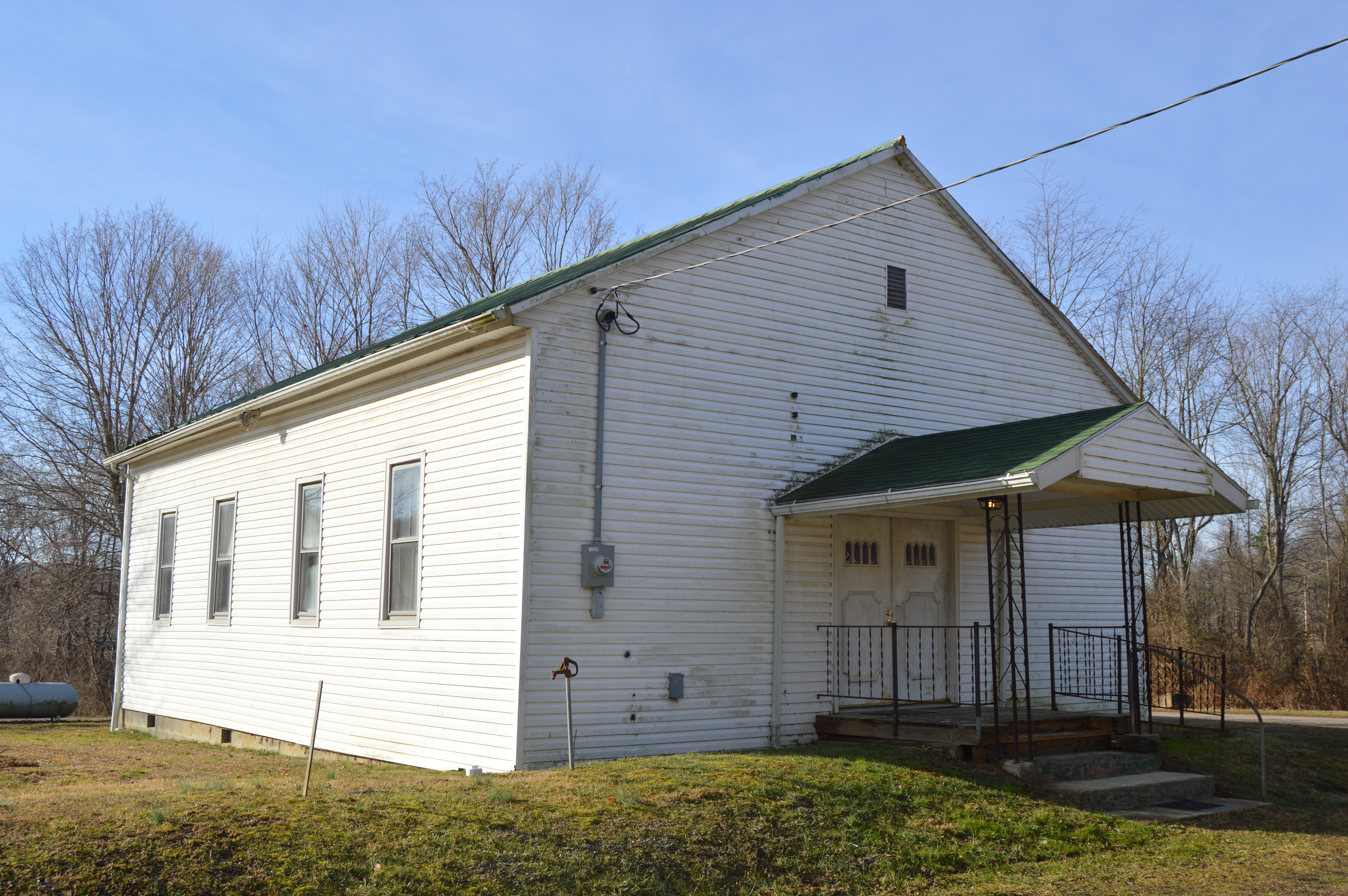 Front and eastern side of the former Prattsville community school, located at the intersection of Prattsville and School House Roads in Prattsville, Ohio, United States.